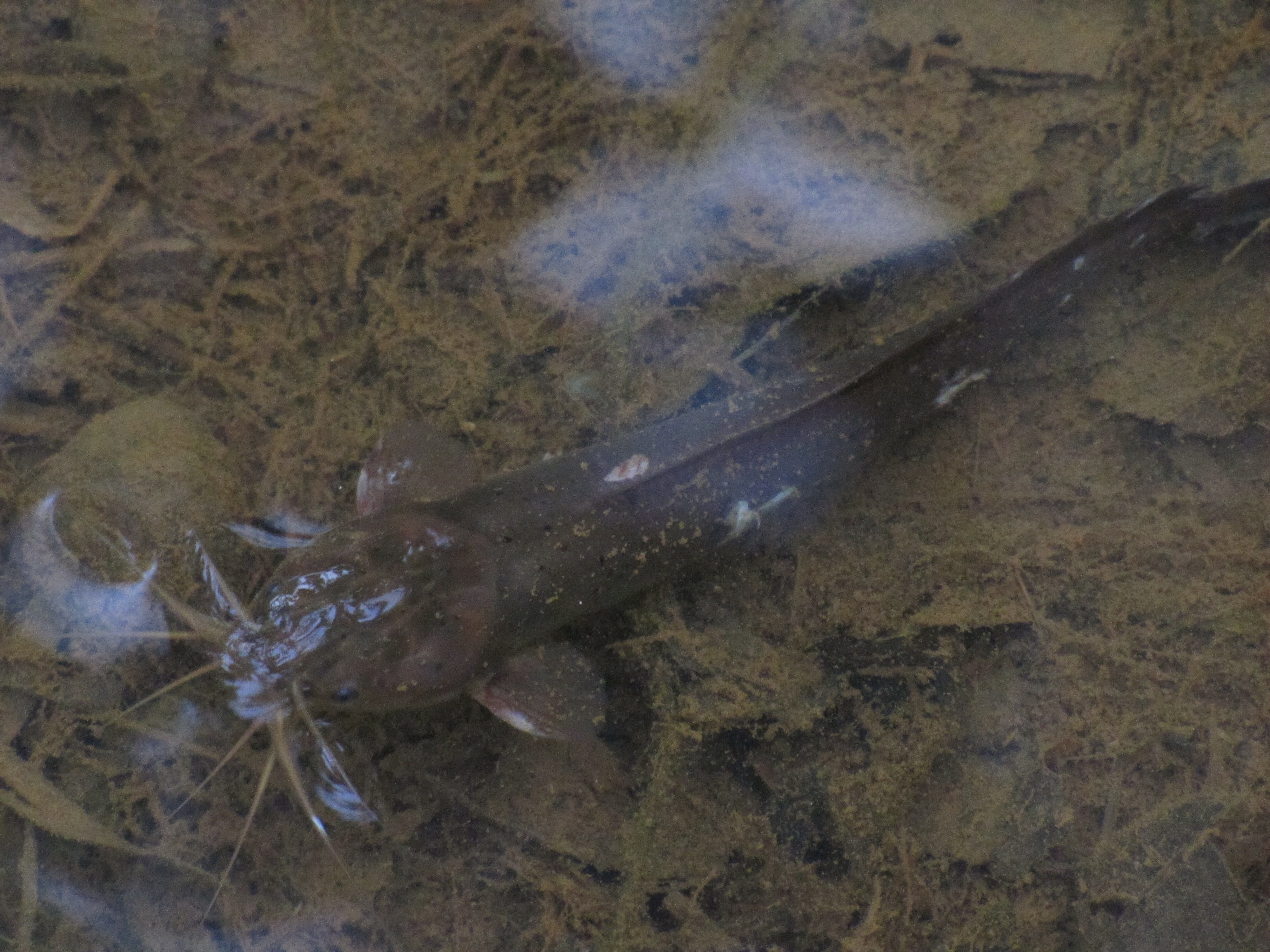 Plotosus canius under water